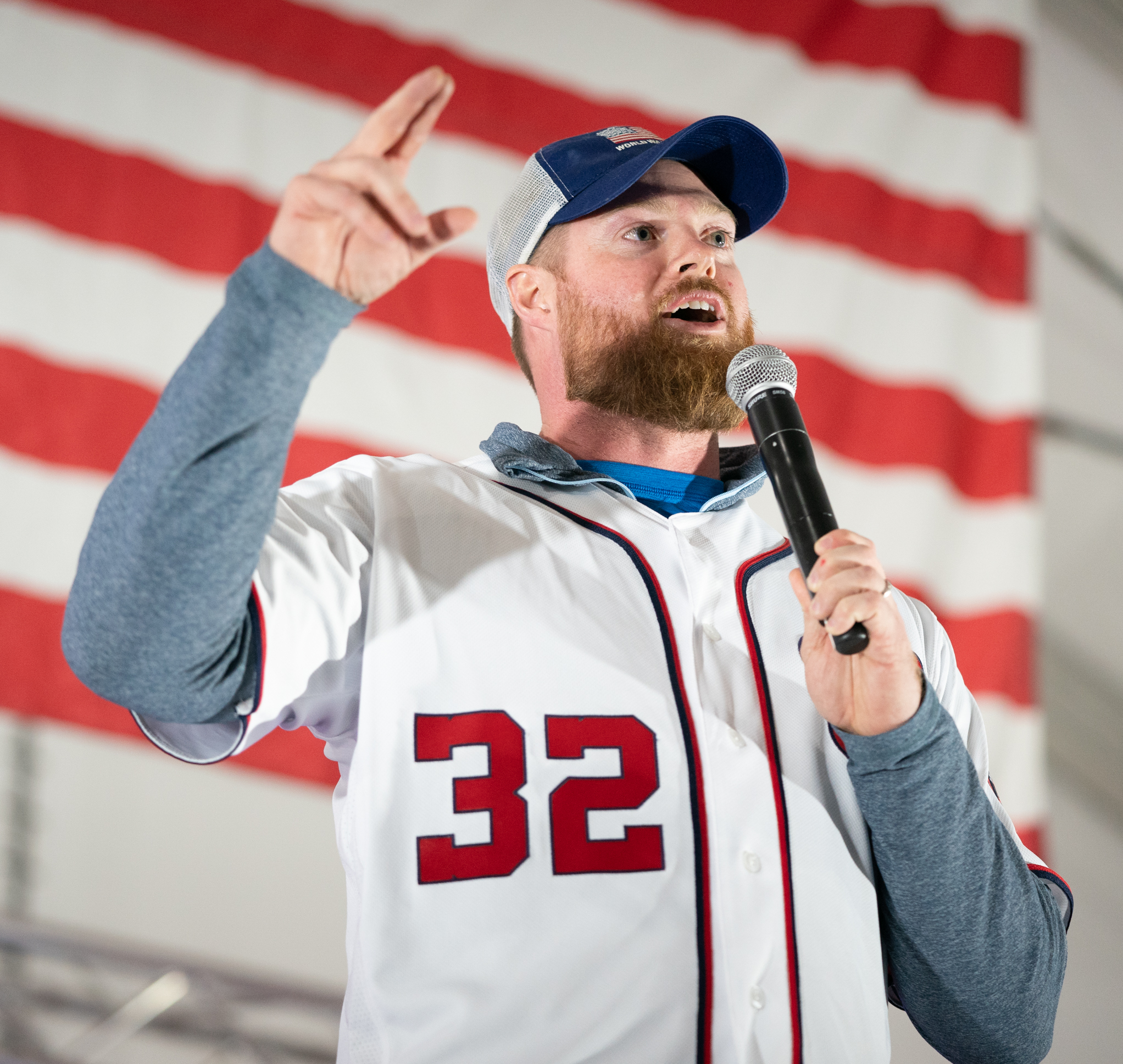 USO Talent perform a variety-style show at Mihail Kognalniceanu Air Base, Romania, as part of the Chairman's USO New Year's Tour 2020, on Jan. 7, 2020. Vice Chairman of the Joint Chiefs of Staff Gen. John E. Hyten and Senior Enlisted Advisor to the Chairman Ramon "CZ" Colon-Lopez host the Chairman's USO Tour on behalf of Chairman of the Joint Chiefs of Staff Gen. Mark A. Milley to bring Washington Nationals Aaron Barrett and Adam Eaton, comedians Scott Armstrong and Matt Walsh, actor Brad Morris, country music band LoCash, MMA Fighters Illima-Lei Macfarlane and Felice Herrig; and DJ J Dayz to show service members in the U.S. European area of responsibility that America remembers them and values their service. (DoD Photo by U.S. Army Sgt. James K. McCann)